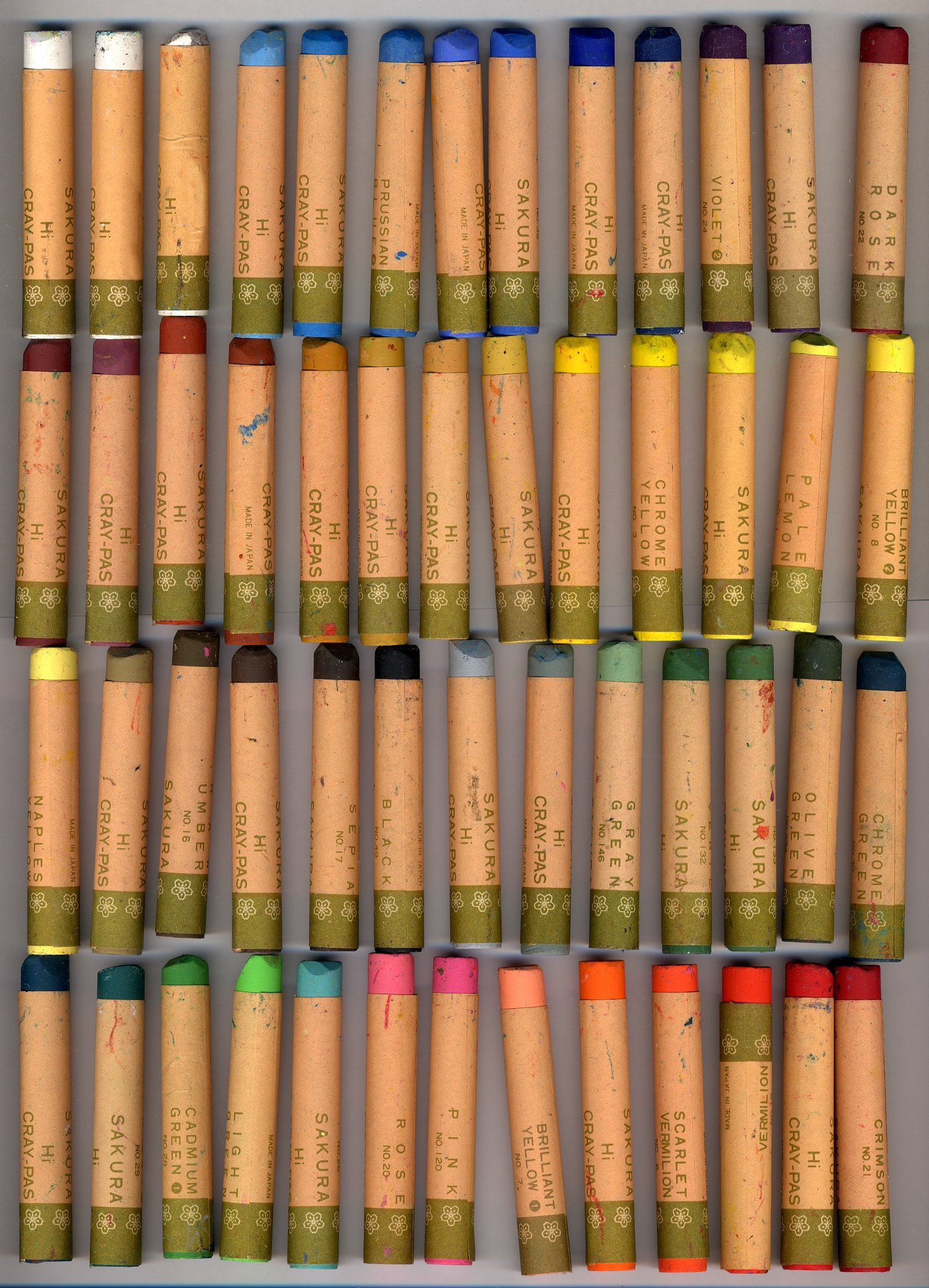 SAKURA HI CRAY-PAS